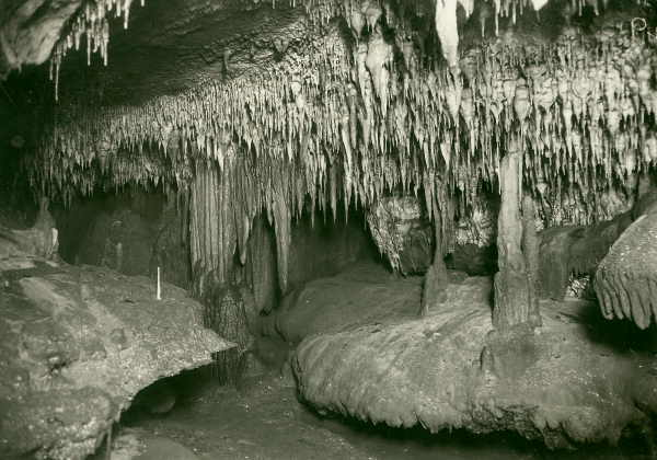 View inside a cave with stalagmites and a large amount of stalactites, Fairy Cave, Buchan, State Library Victoria, Image H2007.64/2 Link to online item: Link to online record